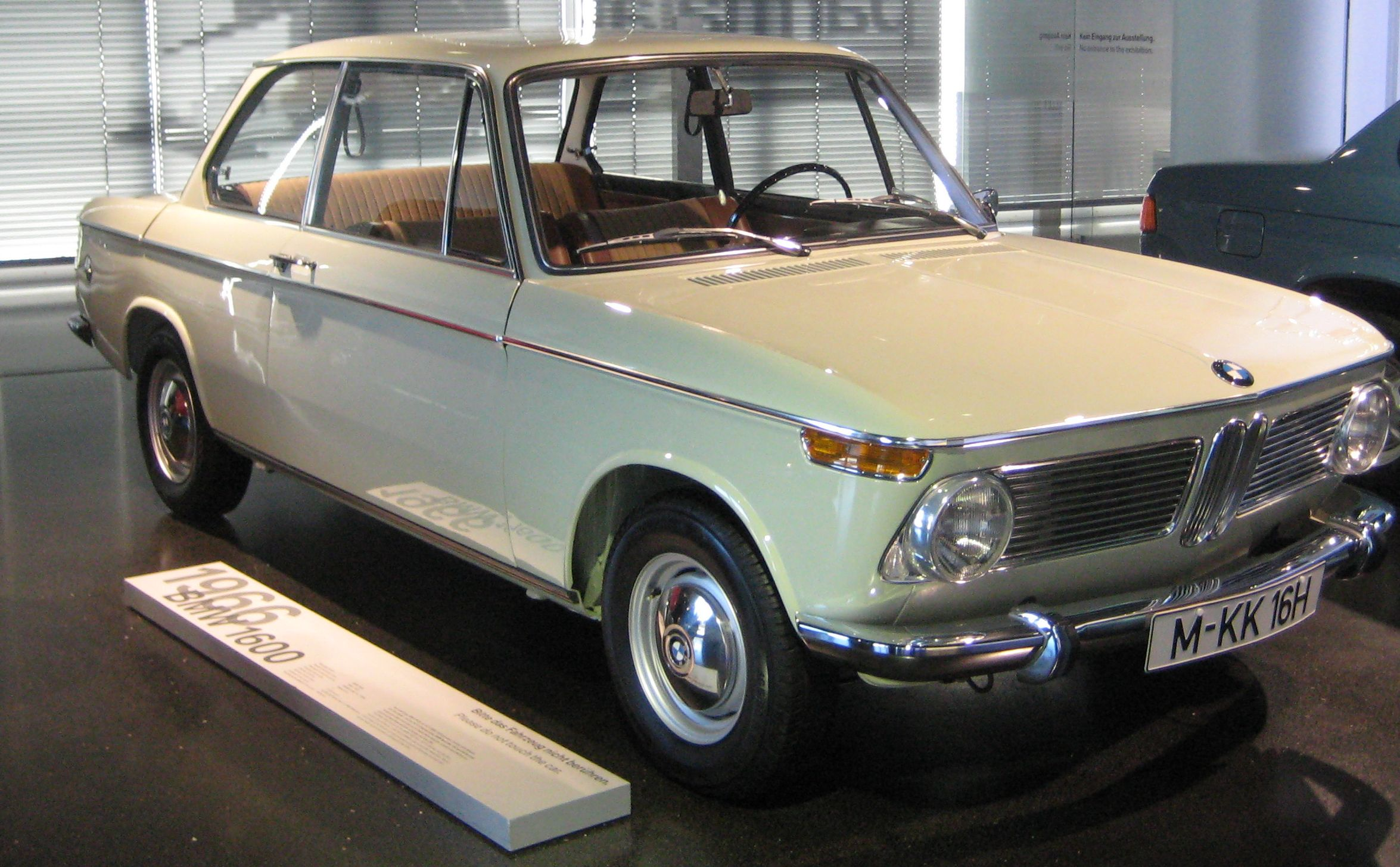 1966 BMW 1600-2, from BMW Museum